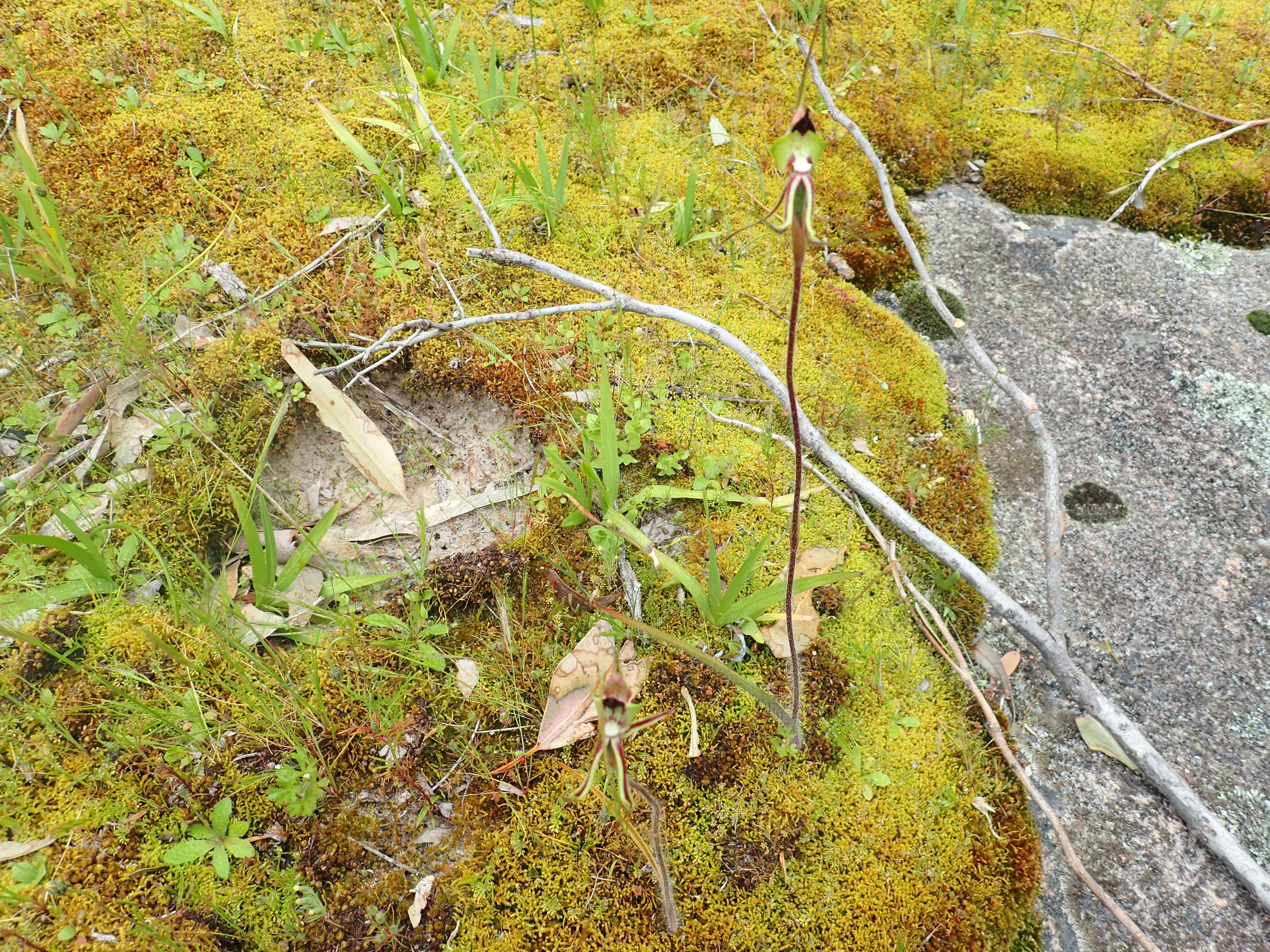 Caladenia exstans growing on a granite outcrop in the Cape Le Grande National Park in Western Australia